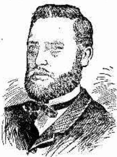 Joseph Kay Hampshire, Ironmaster of the Fitzroy Iron Works, at Mittagong, N.S.W. (Born unknown date Died 1870). He was the ironmaster during the years 1864 to 1867 (inclusive). This engraving by an unknown engraver was published in The Daily Telegraph 17 August 1907.